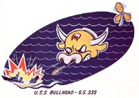 Insignia of the USS Bullhead, Public domain photo from history.navy.mil